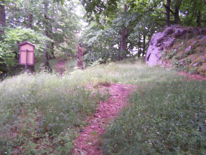 The centre of the ruines.